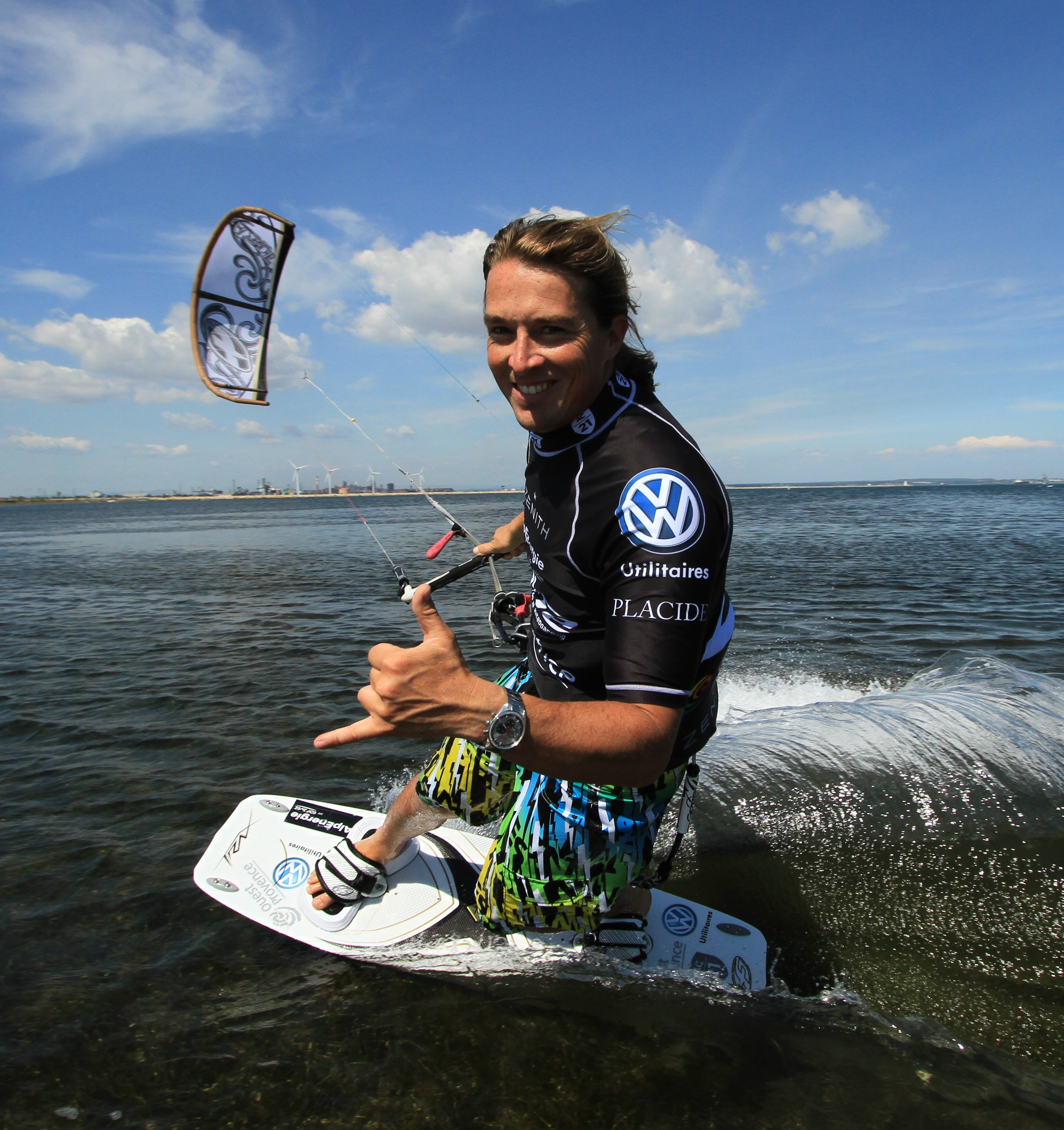 Alex riding his own spot, Port-Saint-Louis-du-Rhône, with his kite